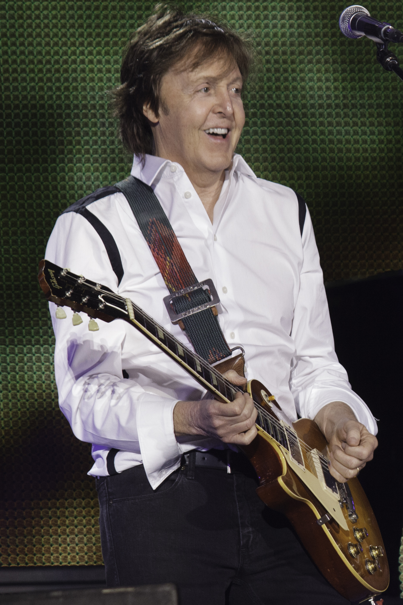 Paul McCartney, Saturday 19 April, Centenario Stadium, Montevideo, Uruguay. Out There tour, including performances at the Movistar Arena in Santiago, Chile (Monday 21 and Tuesday 22), then in Peru, Ecuador and Costa Rica. Repertoire with several Beatles classics, some songs as Macca soloist, and songs from New his 2013 album produced by Mark Ronson, Paul Epworth and Giles Martin. This is the second visit of the former Beatle to Montevideo. His unforgettable debut at Centennial was in 2012, the On The Run tour, included songs from her jazzy album Kisses on the Bottom standards: Paul McCartney, sábado 19 de abril, estadio Centenario de Montevideo, Uruguay. Gira Out There, que incluye presentaciones en el Movistar Arena de Santiago de Chile (el lunes 21 y martes 22), y luego en Perú, Ecuador y Costa Rica. Repertorio con varios clásicos de los Beatles, algunos temas como solista de Macca, y también canciones de New, su álbum de 2013 producido por Mark Ronson, Paul Epworth y Giles Martin. Se trata de la segunda visita del ex beatle a Montevideo. Su inolvidable debut en el Centenario fue en 2012, dentro de la gira On The Run, que incluía canciones de su álbum de standards jazzeros Kisses on the Bottom: The Band: Paul McCartney: Lead Vocals, Bass, Acoustic Guitar, Piano, Electric Guitar, Ukulele. Rusty Anderson: Backing Vocals, Electric Guitar, Acoustic Guitar. Brian Ray:(Backing Vocals, Bass, Electric Guitar, Acoustic Guitar, Tambourine. Paul Wickens: Backing Vocals, Keyboards, Electric Guitar, Percussion, Harmonica. Abe Laboriel, Jr.: Backing Vocals, Drums, Bass, Percussion. Camera: Canon EOS 5D Mark II 1 ISO: 2000